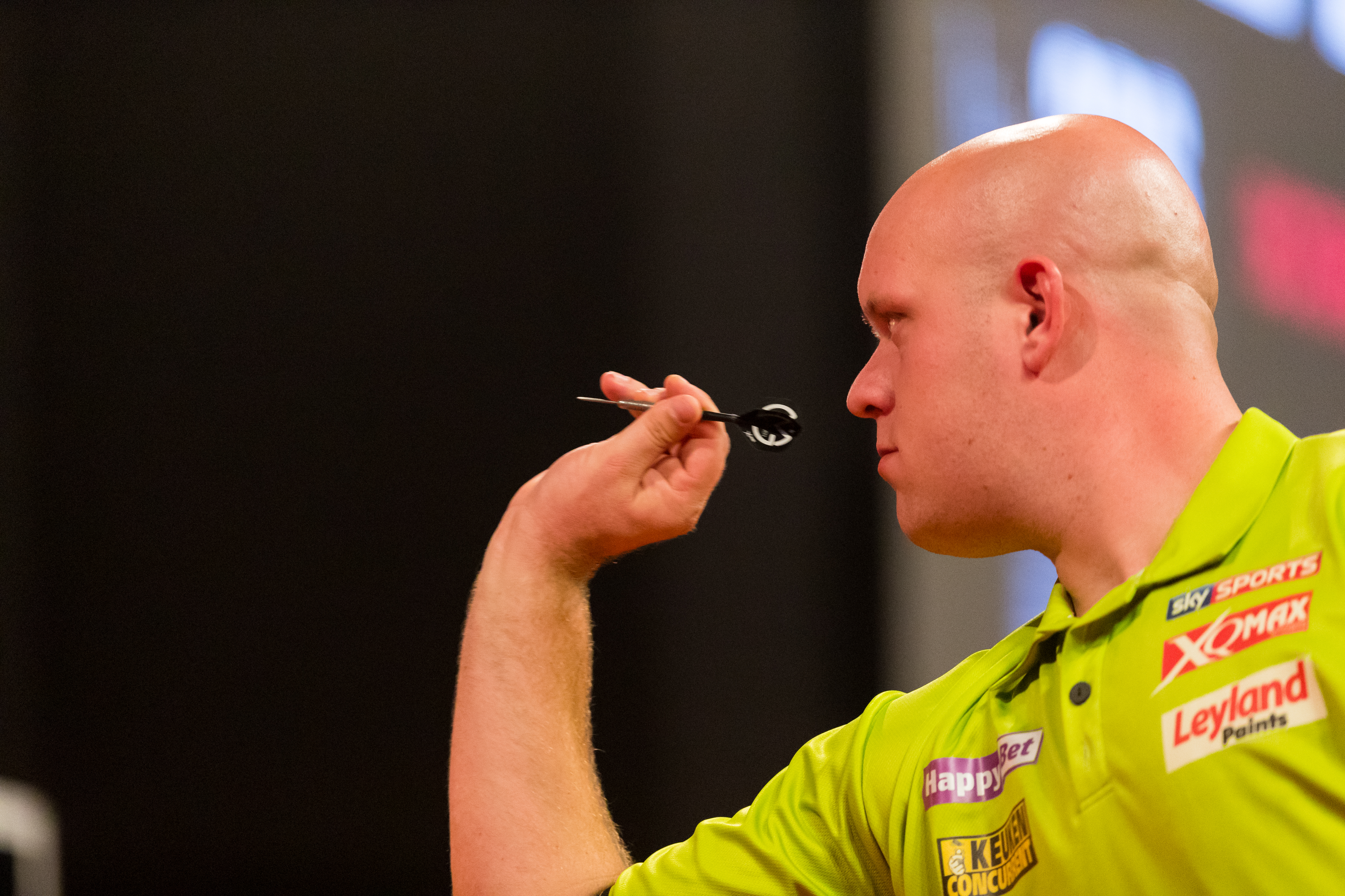 Semifinal: [4] Simon Whitlock (AUS) 0:6 [1] Michael van Gerwen (NED) during Professional Darts Corporation (PDC), German Darts Grand Prix (GDGP) at Maimarkthalle, Mannheim, Baden-Württemberg, Germany on 2017-09-10, Photo: Sven Mandel